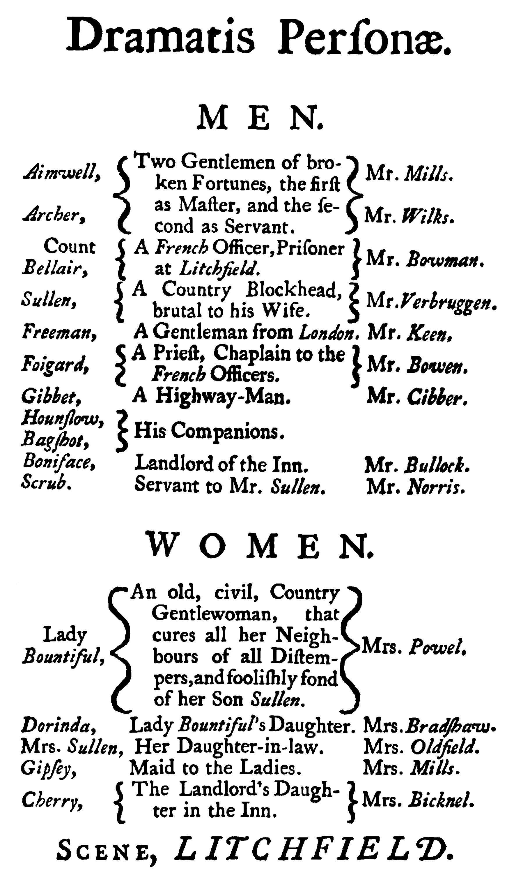 Original casting of The Beaux' Stratagem in 1707, scanned from the 7th edition of the play (1736)